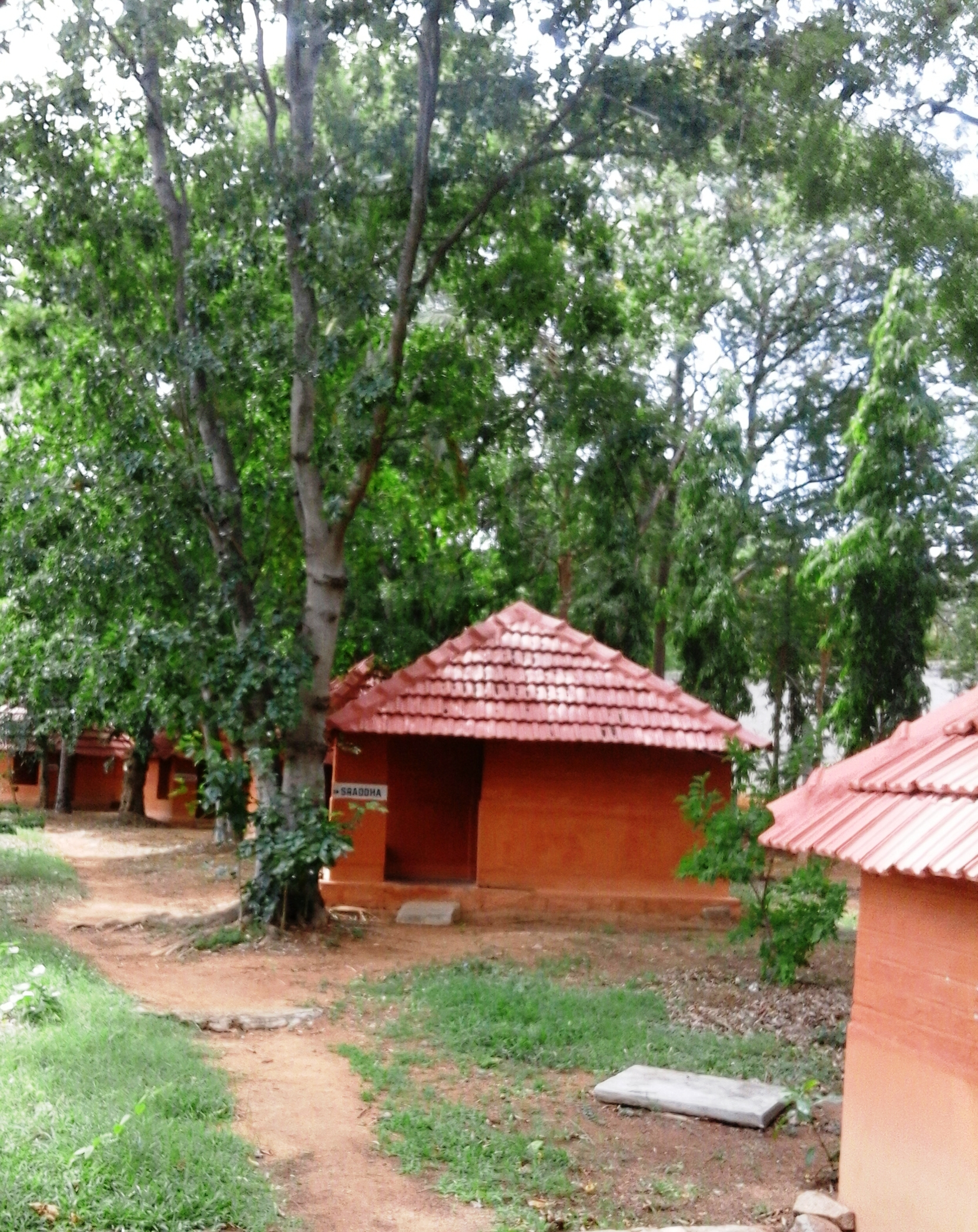 Mysore city, Mysore district, Karnataka province, India.